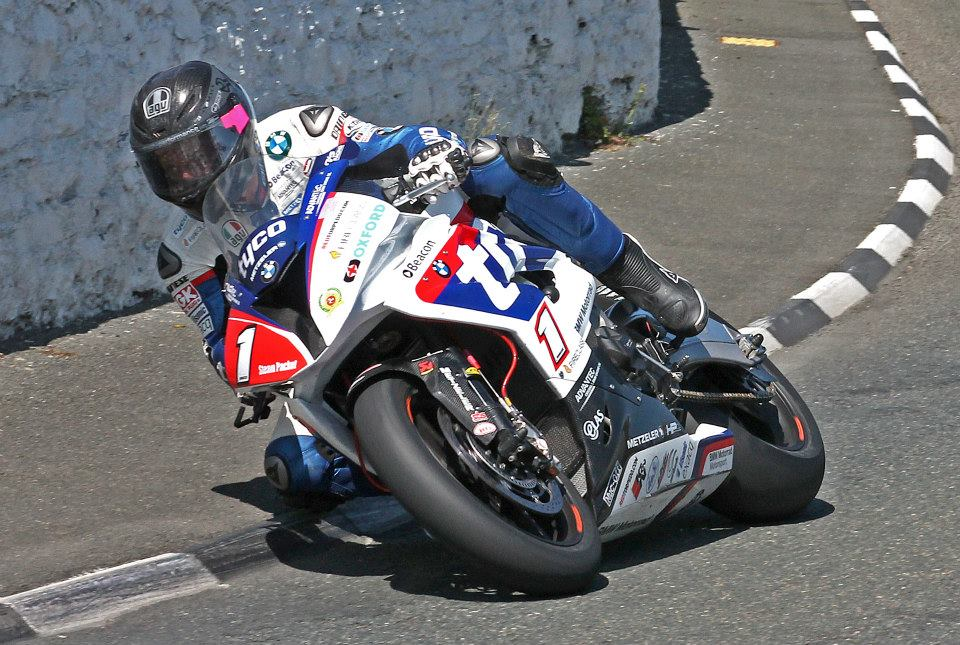 Guy Martin negotiates Church Bends, Malew, during the 2015 Southern 100 Races.